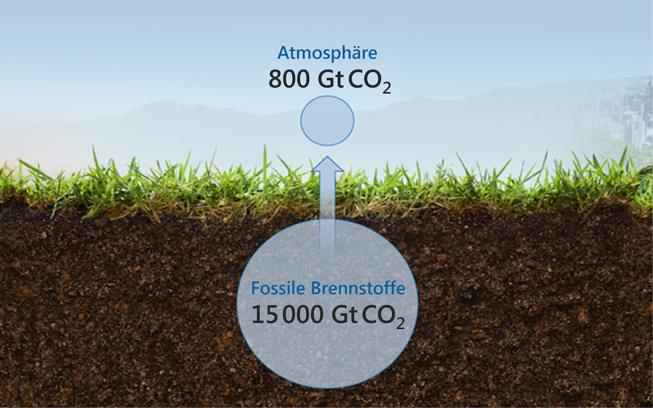 Modified version of the original by Mercator Research Institute, with identical text. Most fossil fuels need to stay in the ground, because the waste disposal capacity of Earth is already overstretched. Under the Paris agreement a maximum budget of 600-800 Gt CO2-eq remains as of 2017 (and this assumes that the next generation will actively remove CO2 from the atmosphere).